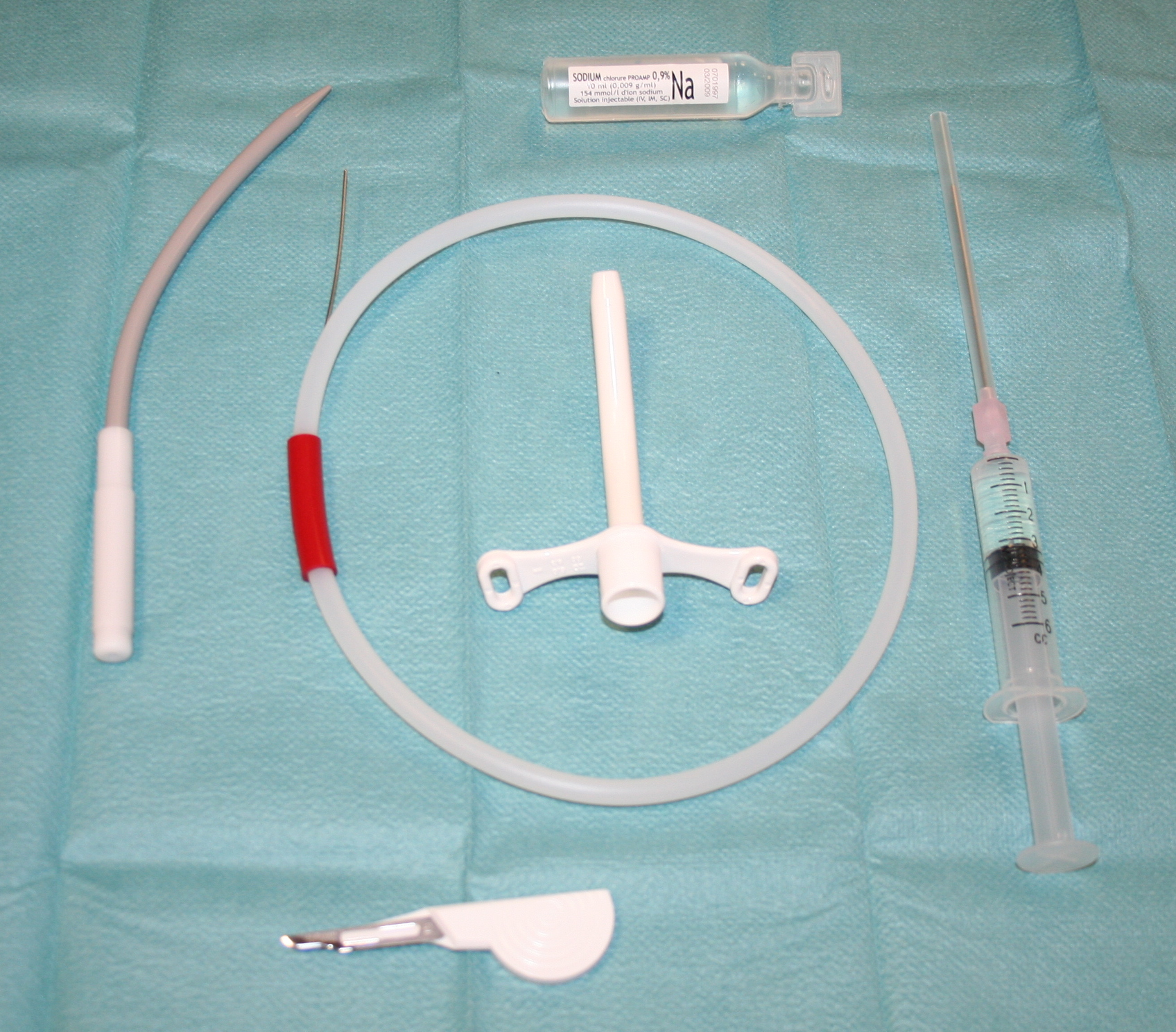 kit cricothyroïdotomie